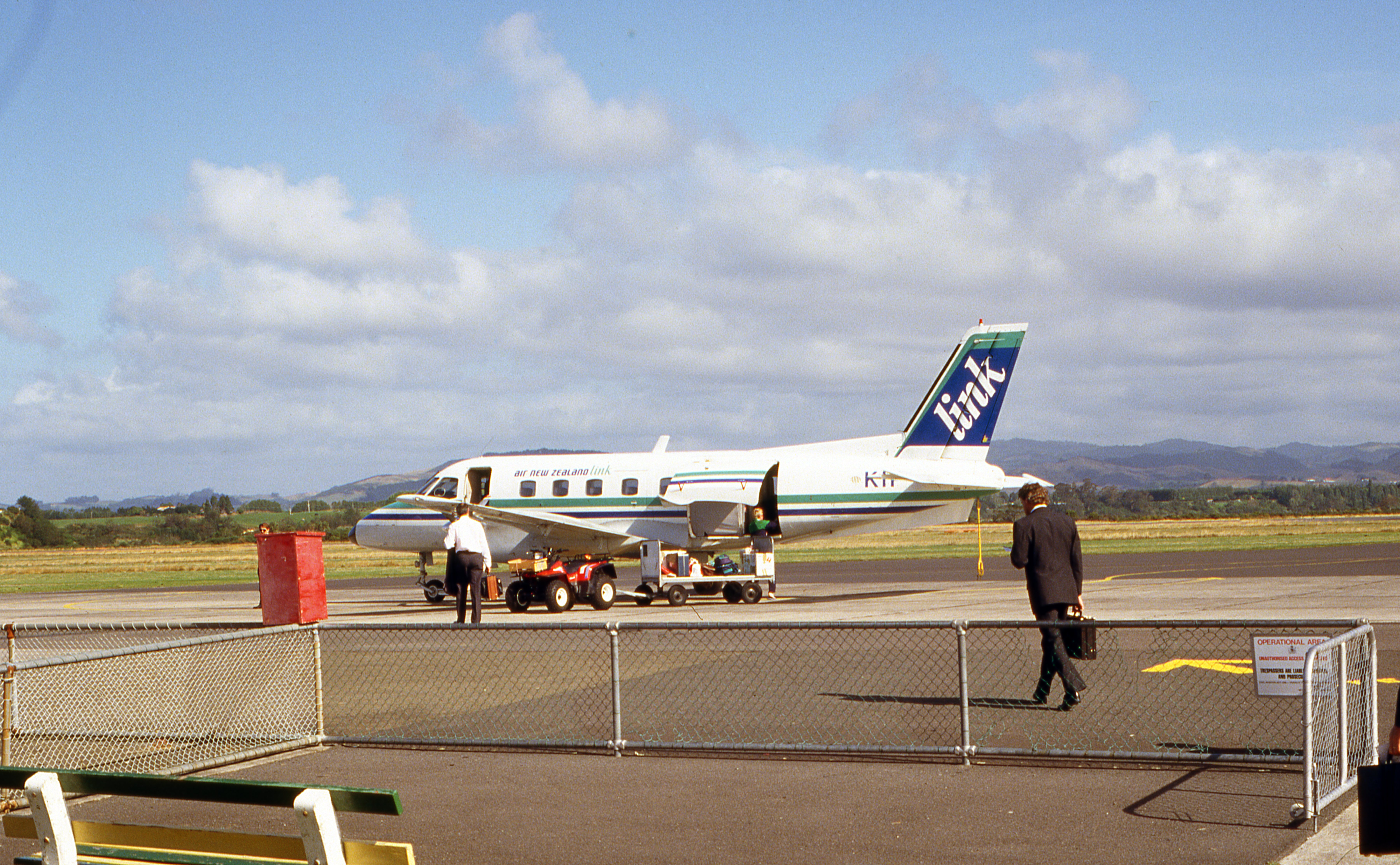 Air New Zealand Link Embraer 110 at Tauranga Airport, being loaded for a flight to Auckland